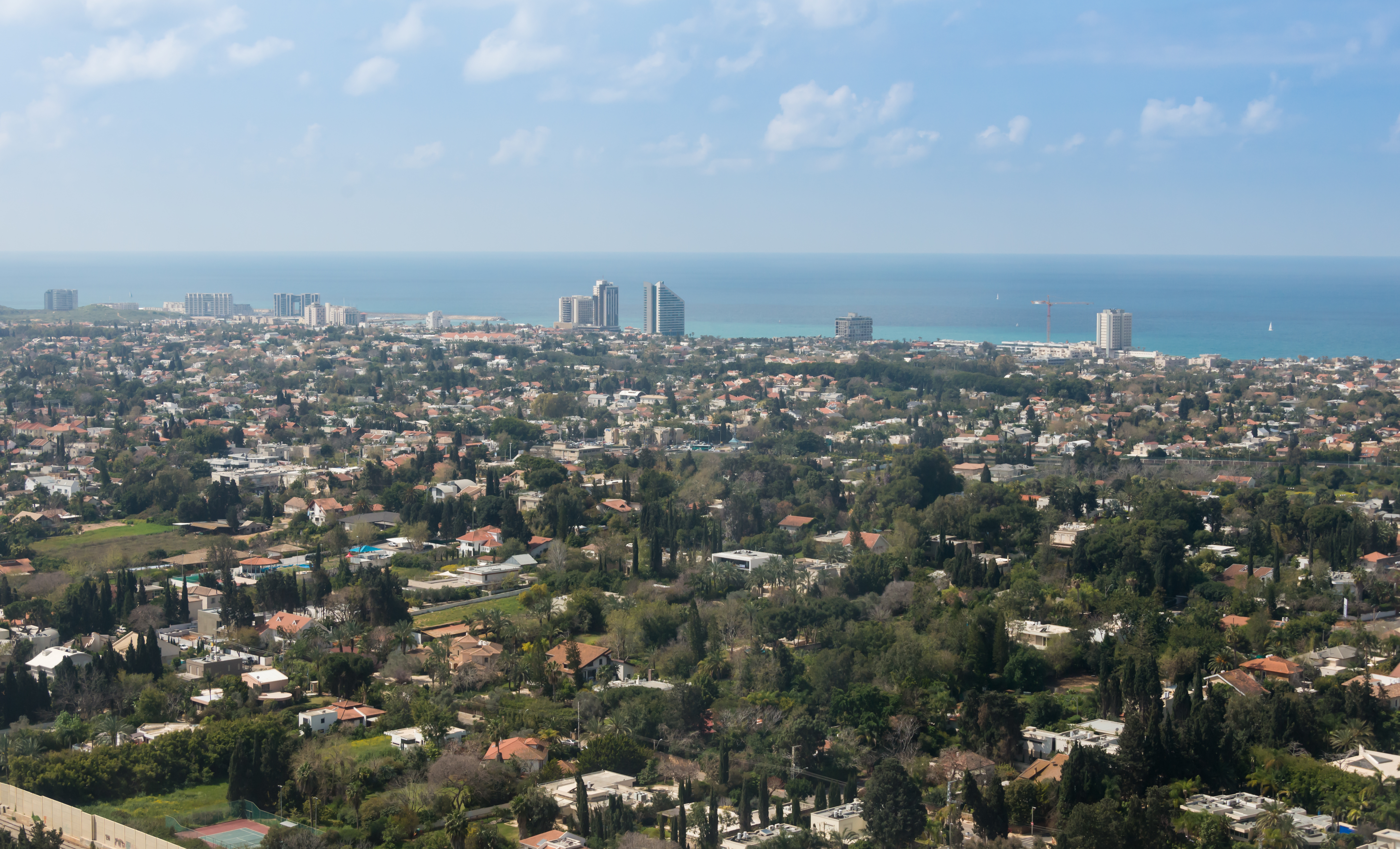 aerial photography, Herzliya, pituah, shchunat rivlin